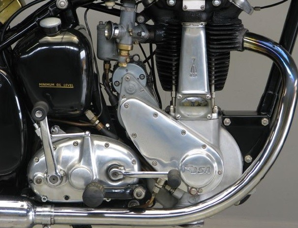 1949 BSA B31 350cc-OHV motorcycle engine